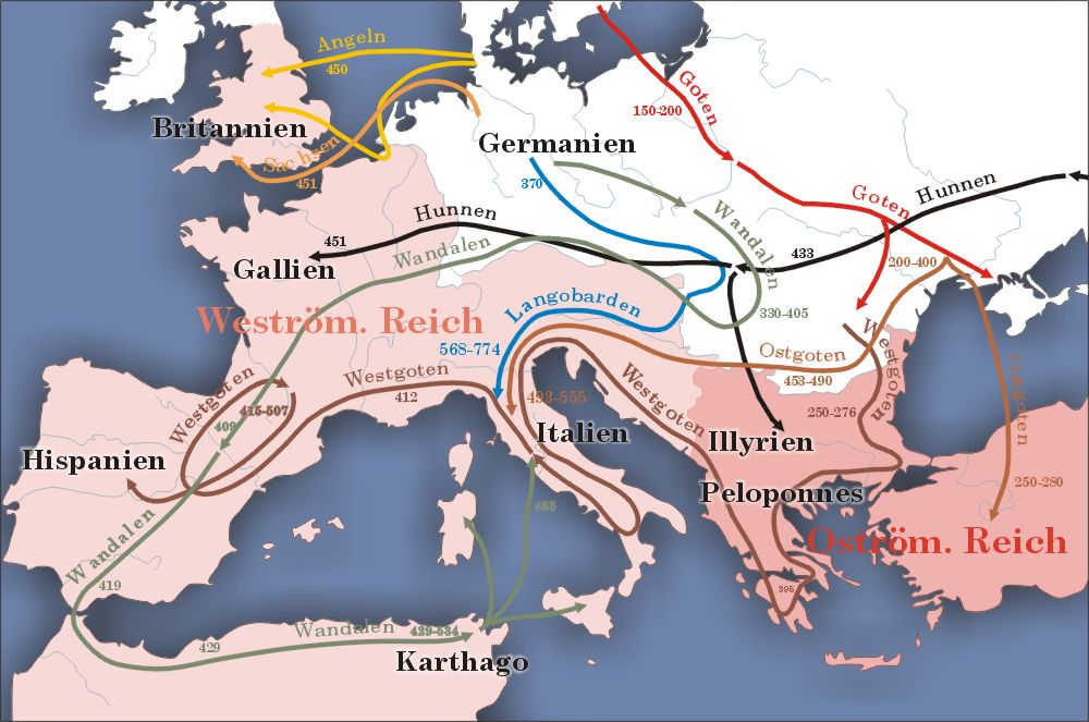 Map shows the migrations in Europa from 150 till 500 AD